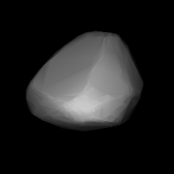 3D convex shape model of 353 Ruperto-Carola, computed using light curve inversion techniques. J. Hanuš, J. Ďurech, M. Brož, B. D. Warner (June 2011). "A study of asteroid pole-latitude distribution based on an extended set of shape models derived by the lightcurve inversion method". Astronomy and Astrophysics 530: A134. ISSN 0004-6361. arXiv